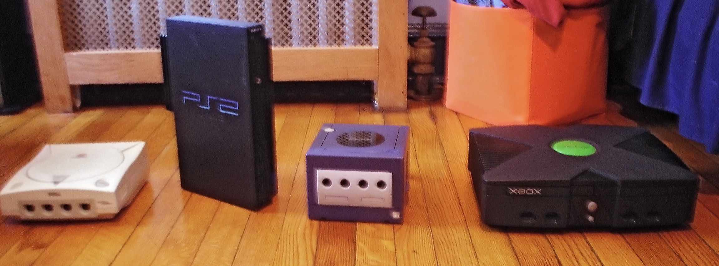 Video game consoles of the sixth generation (from left to right, Dreamcast, PlayStation 2, Nintendo GameCube, Xbox).